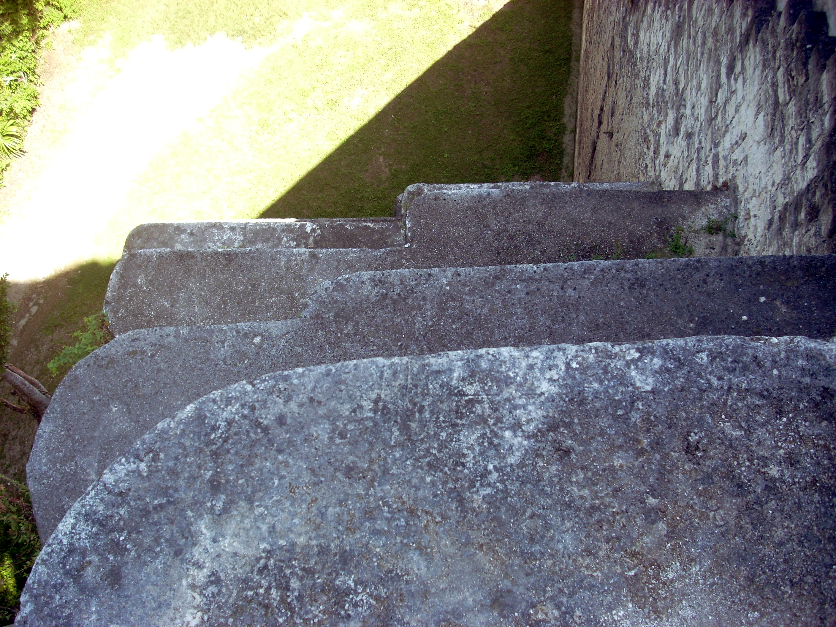 View of the northwest corner of Tikal Temple V, taken from above, showing the rounded, inset corners of the pyramid. Peten, Guatemala.